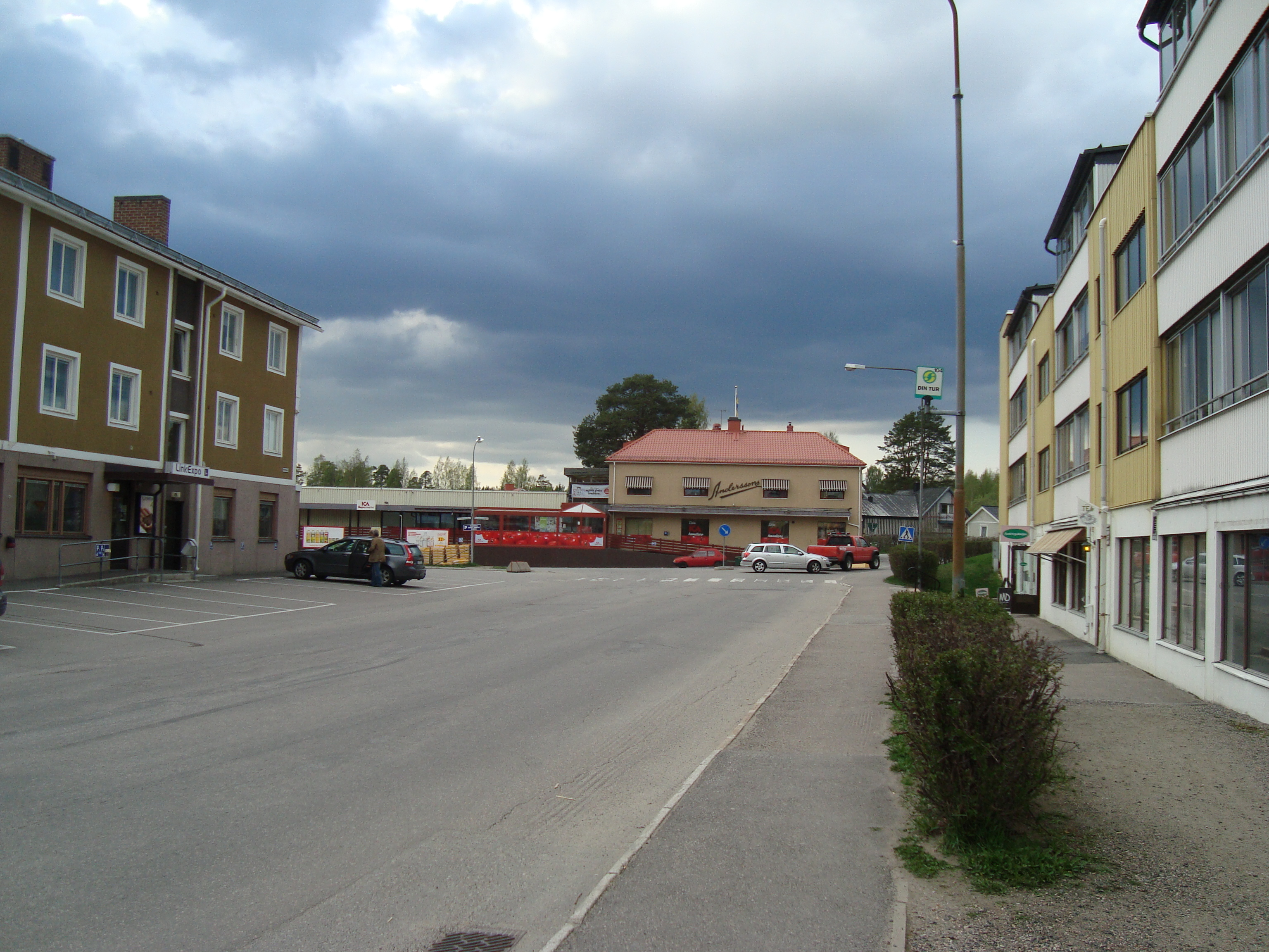 Sörberge, Sweden. A picture of a part of Sörberge town centre. Sörberge is a part of the town of Timrå. In the background you can see the grocery store ICA Anderssons.